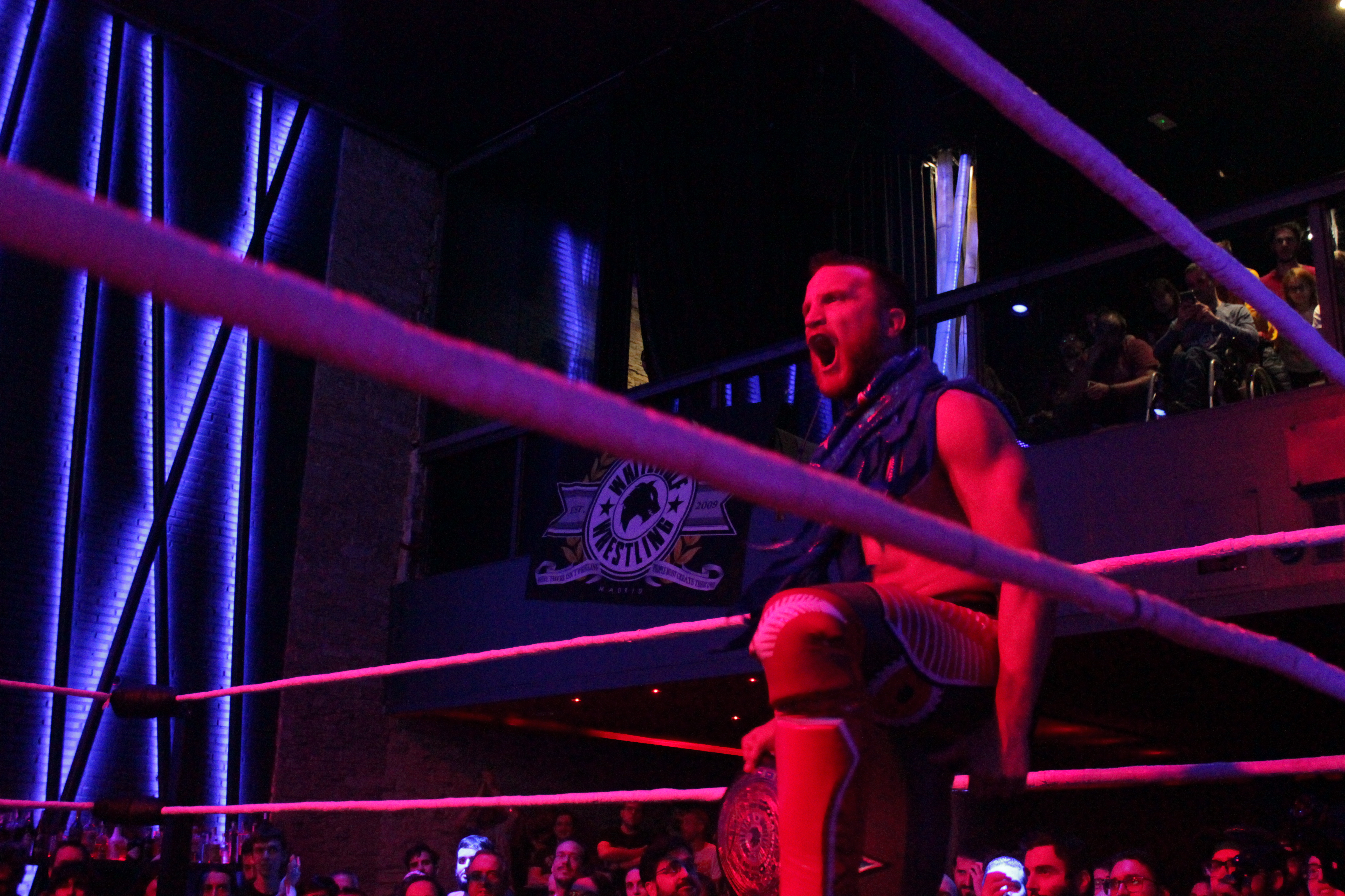 pro wrestler travis banks